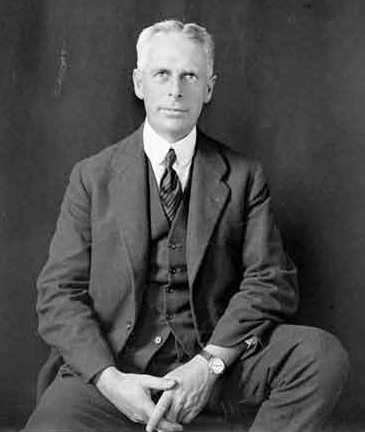 PORTRAIT OF MR. HARRIS (COOMr) c1928